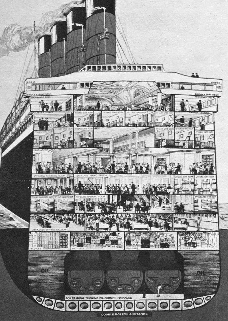 A postcard from 1913 showing a section of the Cunard Line's huge emigration steamship Aquitania.